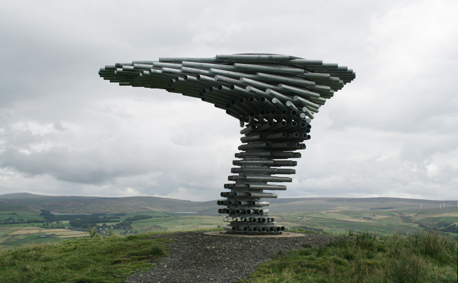 Singing Ringing Tree (Panopticons), Burnley, Lancashire, England. 13.08.2007 (Author: Andrew Kline).